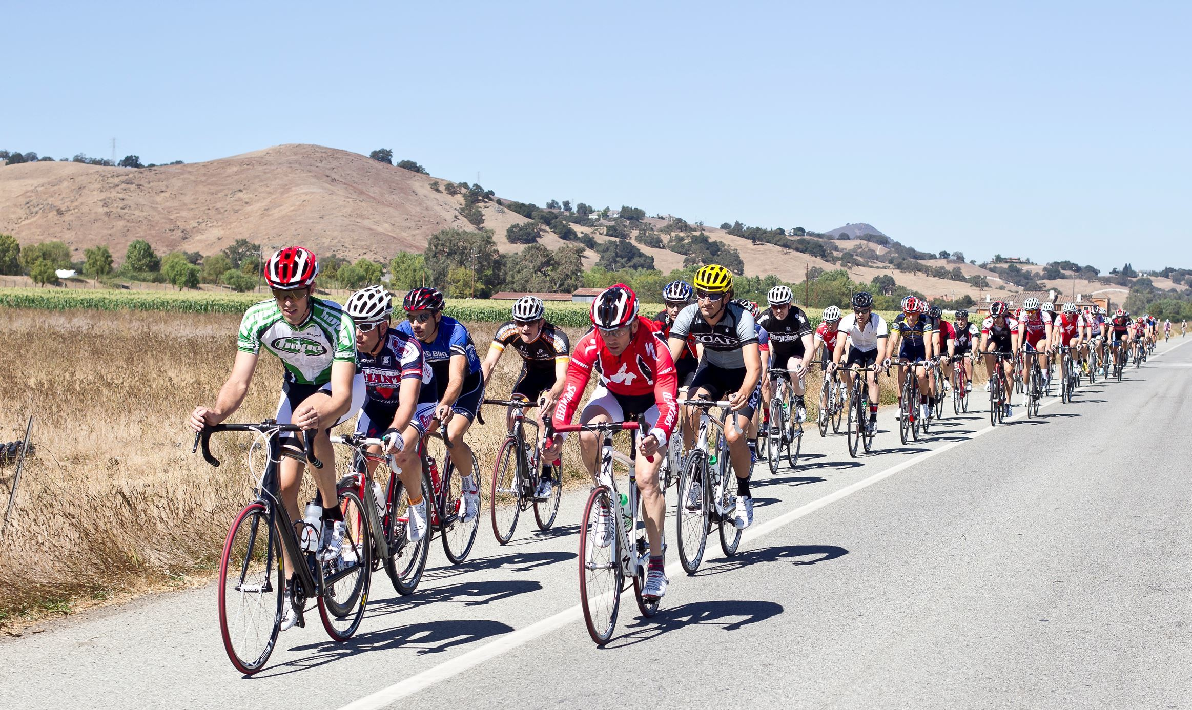 Amgen Tour of California